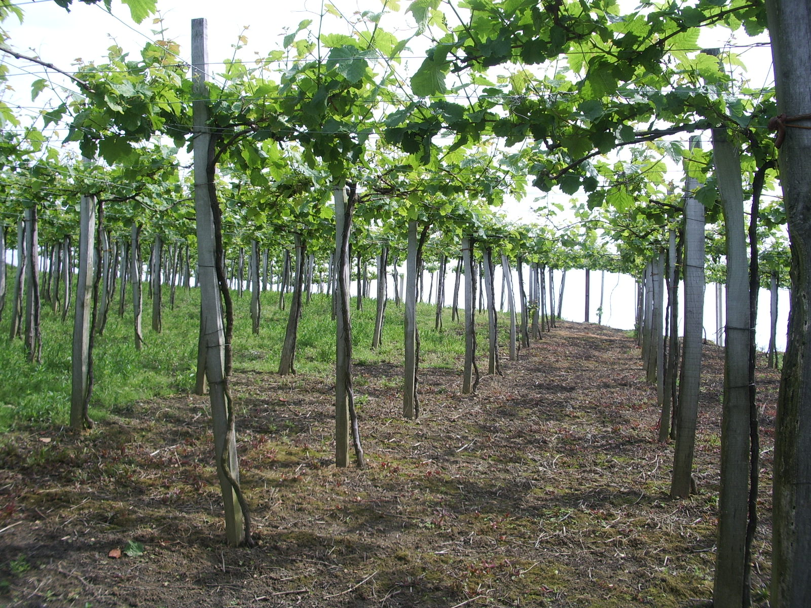 Txakolin wineyard, on the path from Zarautz to Getaria, Guipuscoa, Basque Country